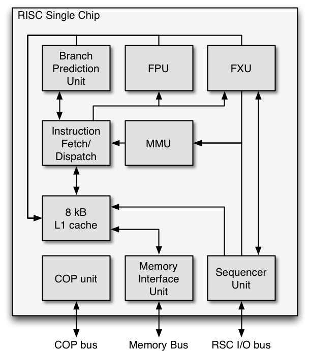 The logic schema of the RISC Single Chip processor